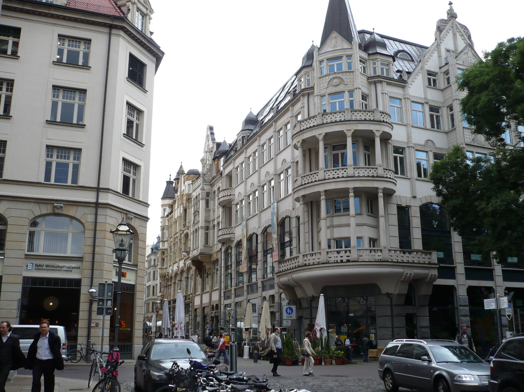 Streets of Leipzig. Corner of Barfußgäßchen and Dittrichring.